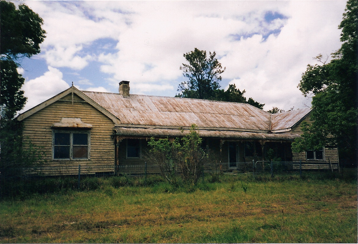 "Burnbrae" Homestead, East Seaham